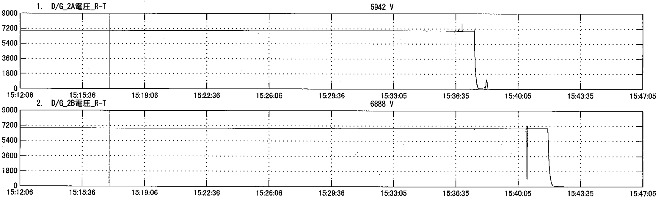 Example of Fukushima I nuclear power station emergency diesel generator failures during tsunami flooding on March 11, 2011; graph shows both Unit 2 generators output voltage.